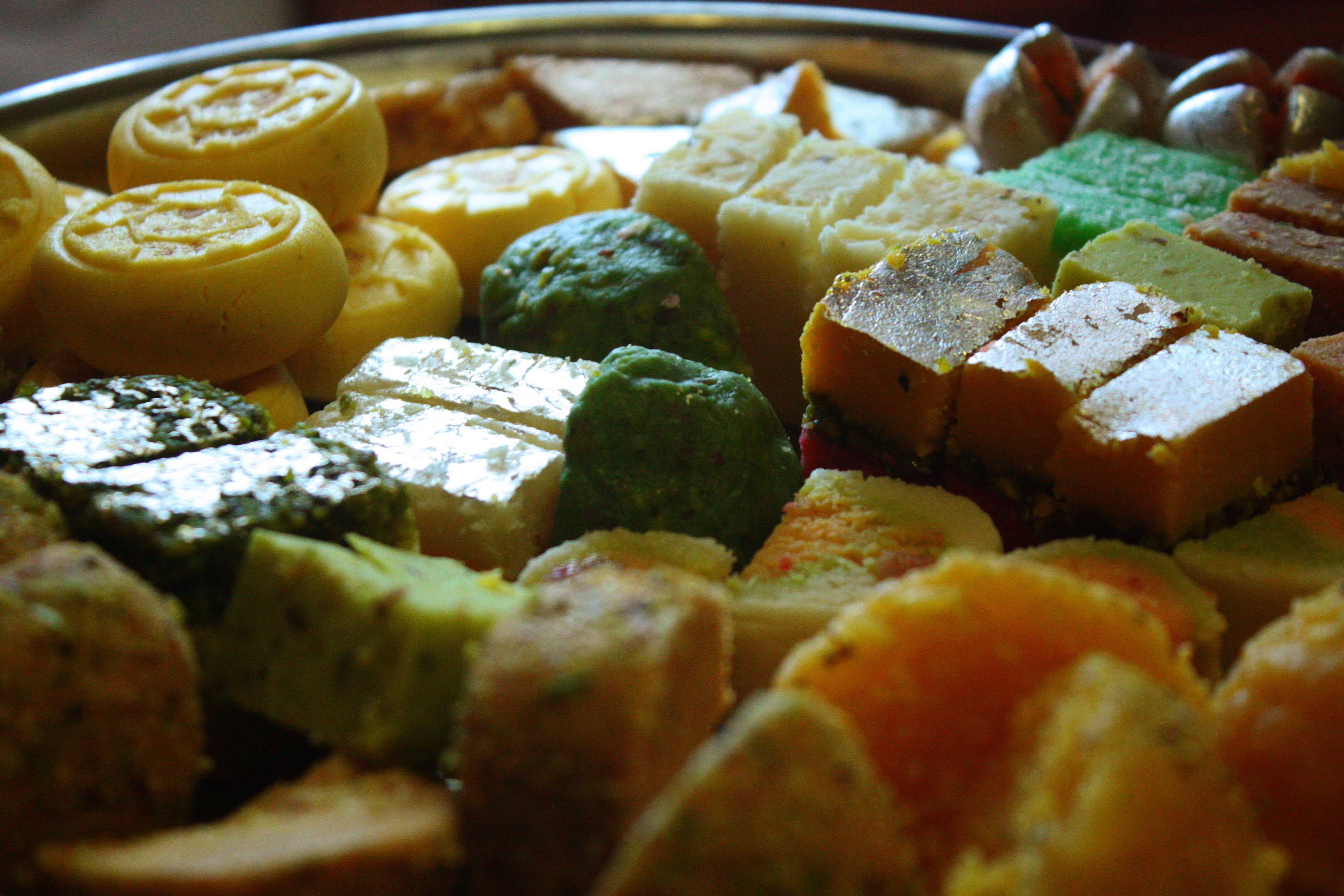 The festival also celebrates food. Hundreds of different types of sweets, desserts and seasonal foods are prepared. On the night of Diwali people dress up in new or their best clothes, then visit friends and families, exchanging sweets and sharing food with each other. Above is a small sample of sweets (mithai) to celebrate Diwali.